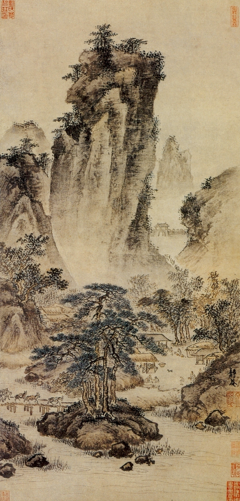 Dai Jin. "Travelers Through Mountain Passes", 61.8x29.7, Palace Museum, Beijing.